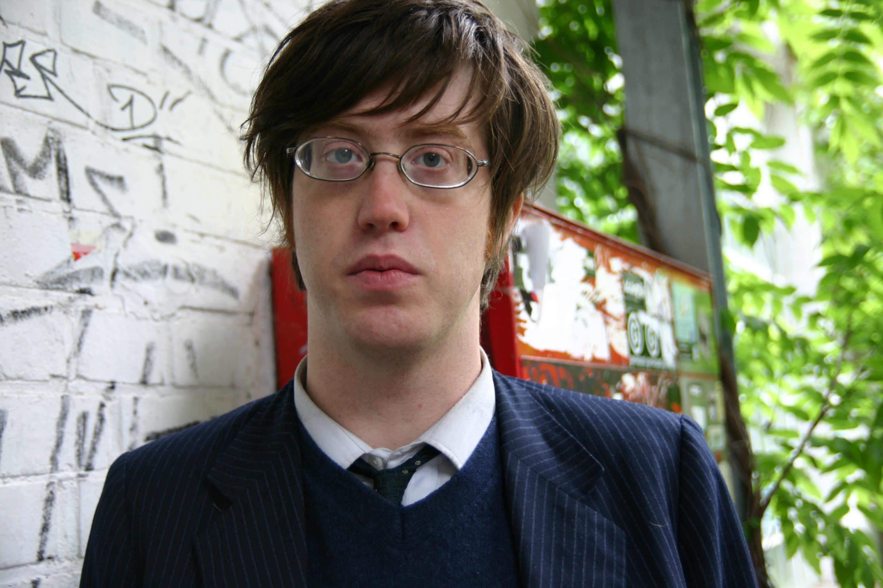 Will Sheff, singer and bandleader of US rock band Okkervil River